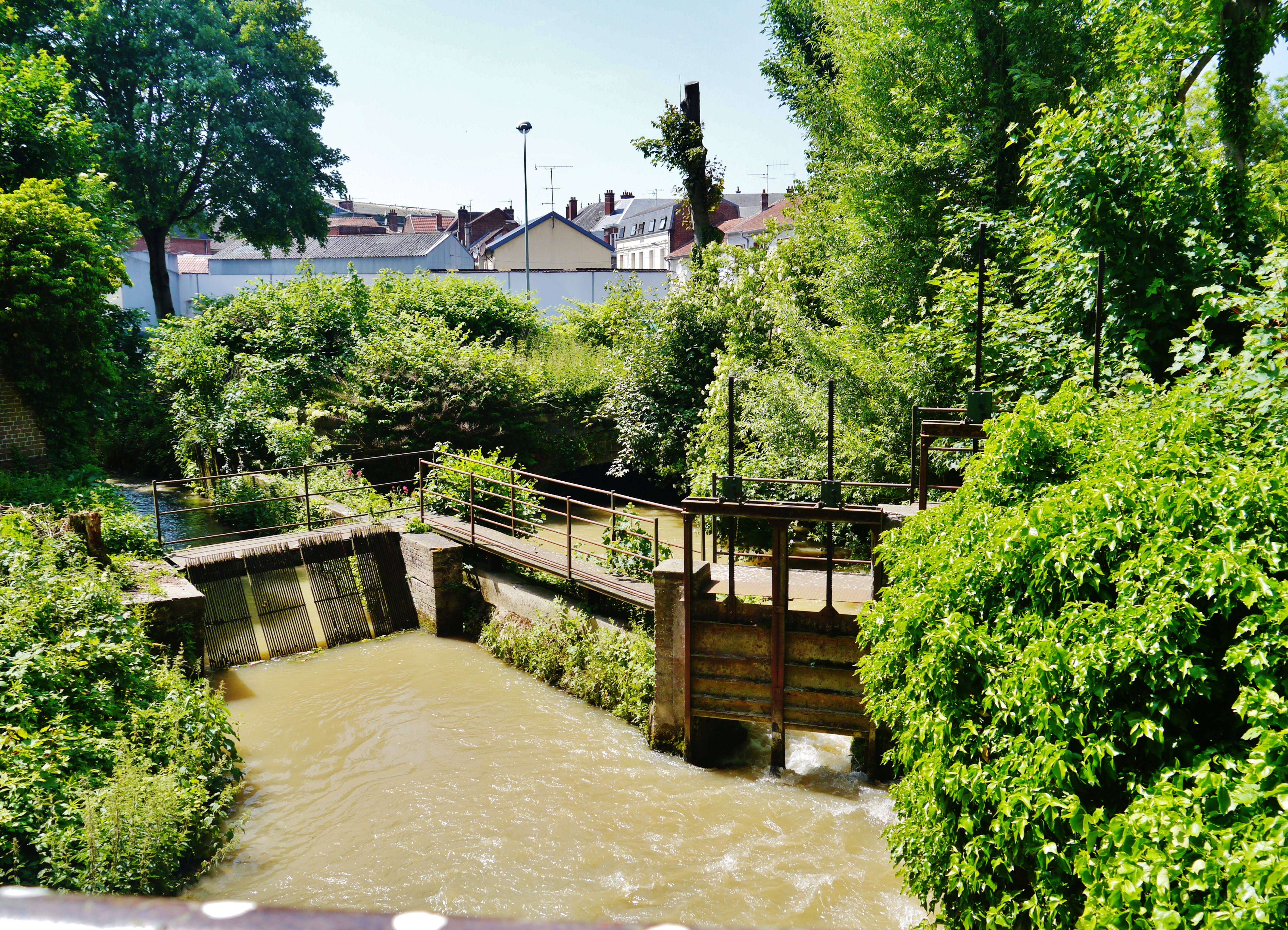 the Ancre at Albert, Department of Somme, Region of Upper France (former Picardy), France